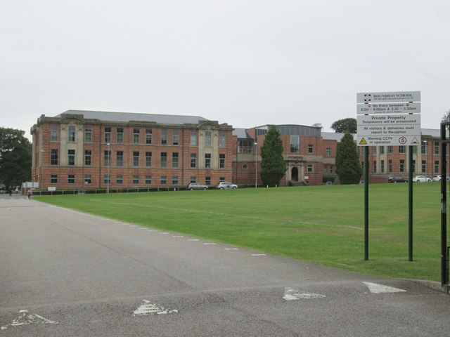 Roundhay School - Old Park Road